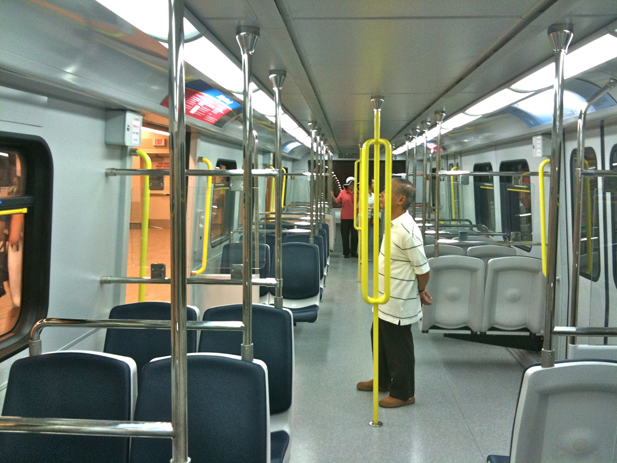 Interior of the Canada Line trains used on the Vancouver SkyTrain system.